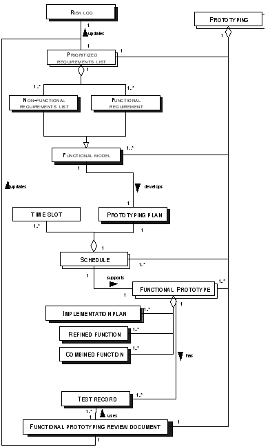 Meta-data model of Functional Model Iteration author: Senoaji Wijaya